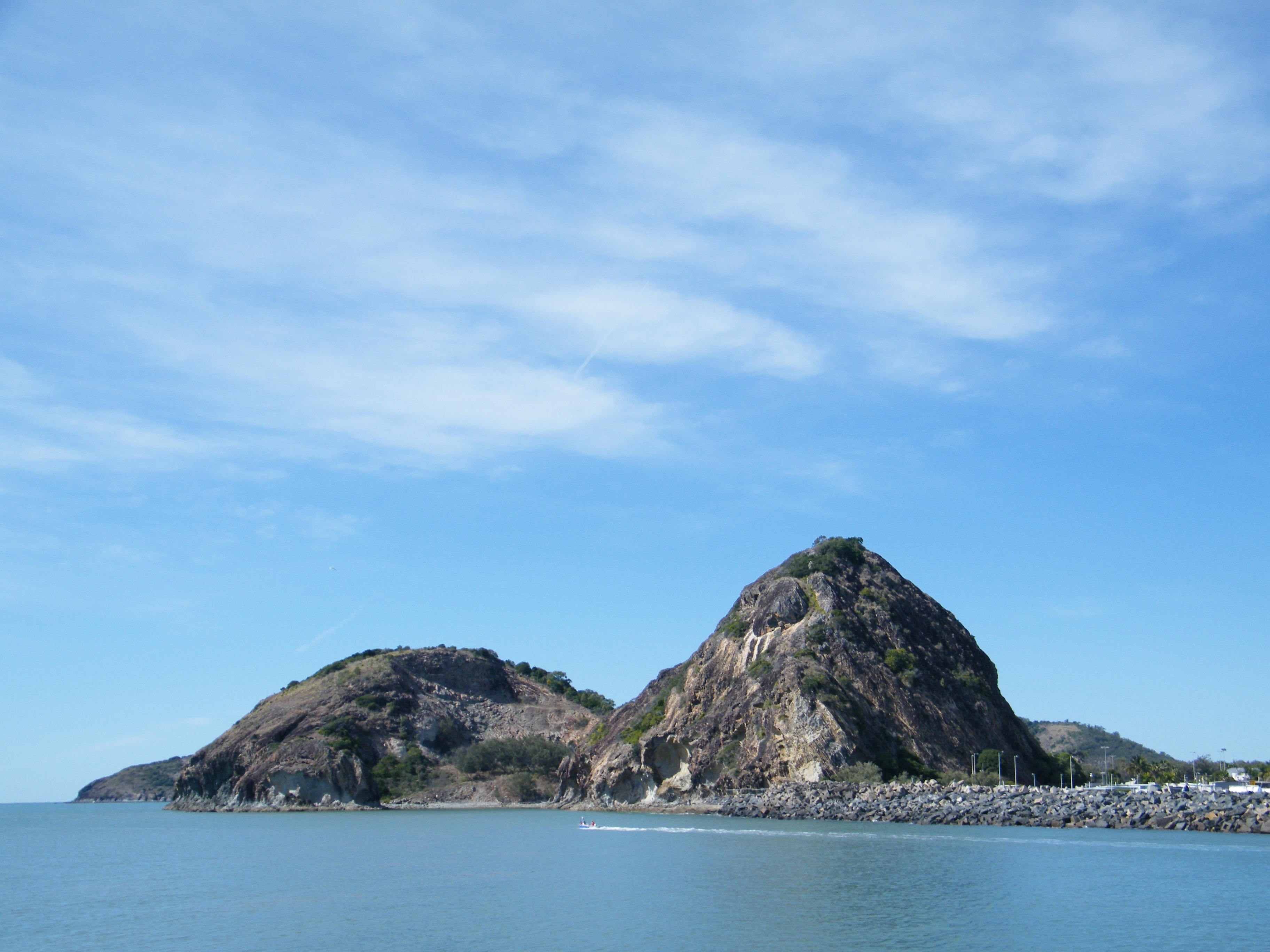 Double Head volcanic plug, made of trachyte, near Rosslyn in Queensland, Australia.